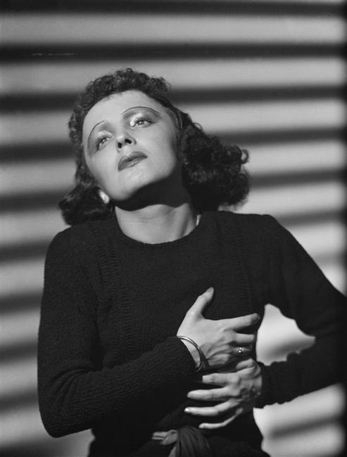 Studio photo